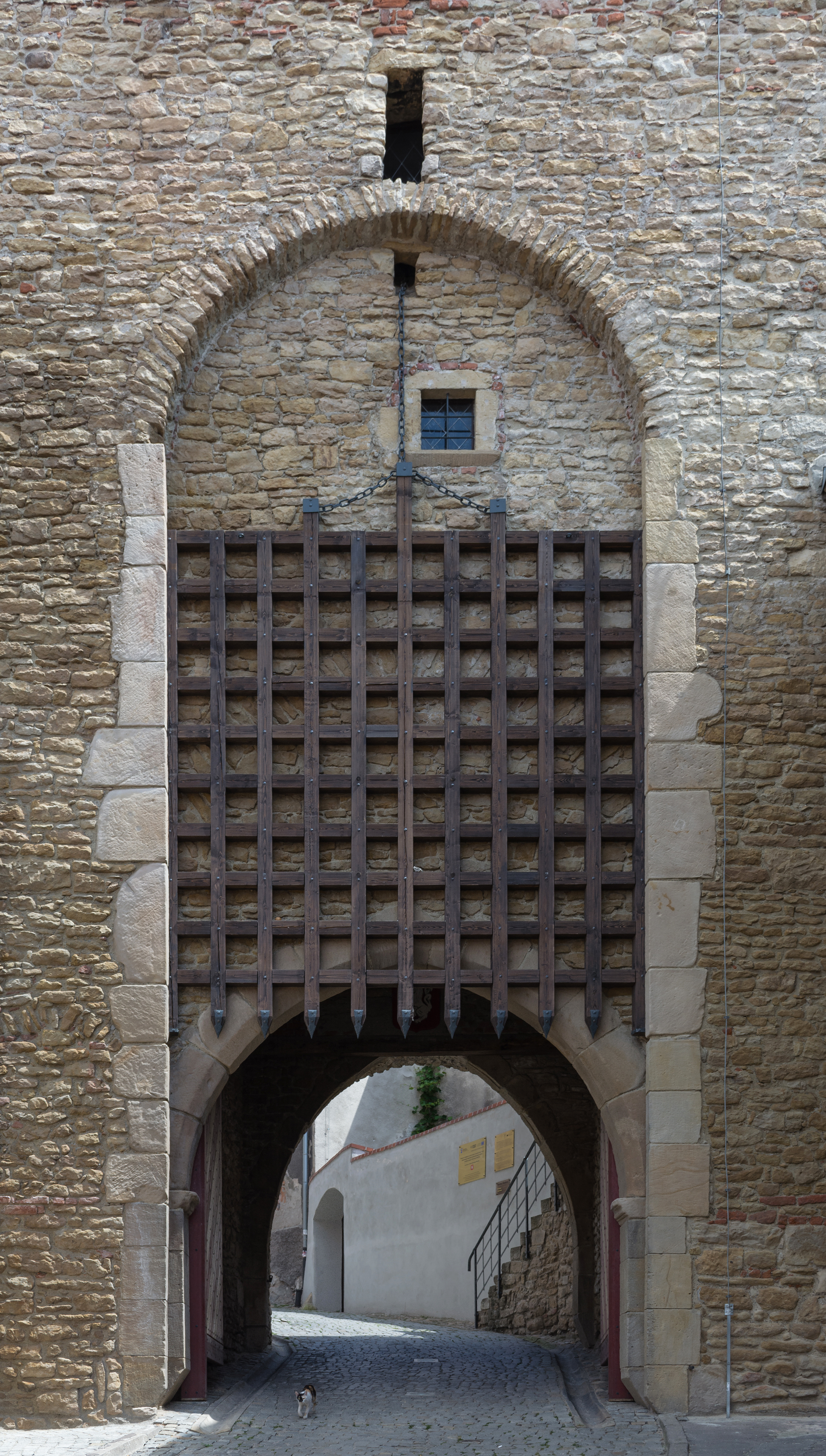 Wodna Gate in Bystrzyca Kłodzka